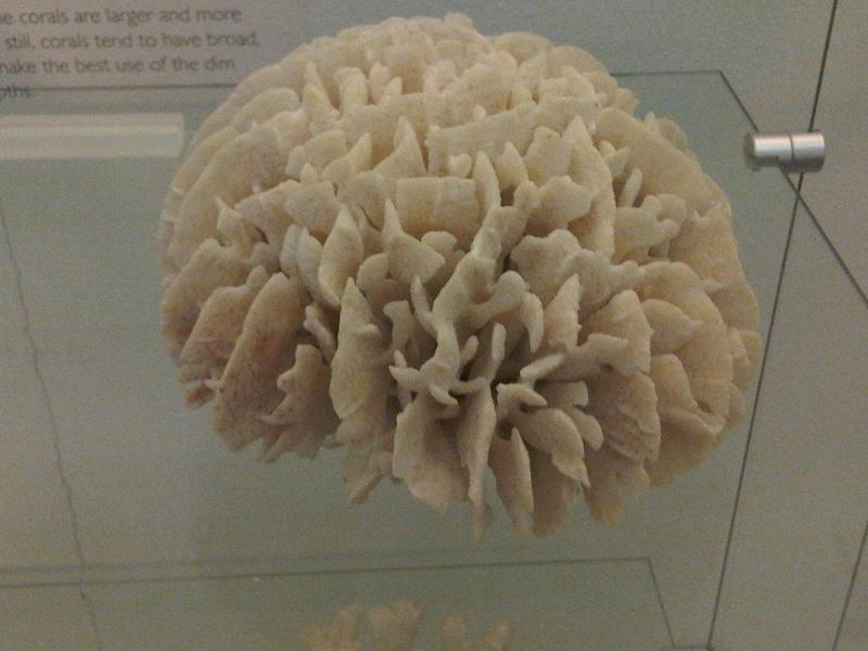 Unidentified Pavona sp. at the Natural History Museum in London, England.